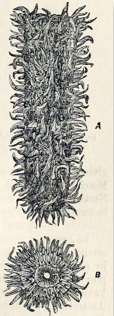 Pyrosoma elegans (now Pyrosoma atlanticum); Pyrosamatidae; A. side view of the entire colony; B. end view of an open extremity